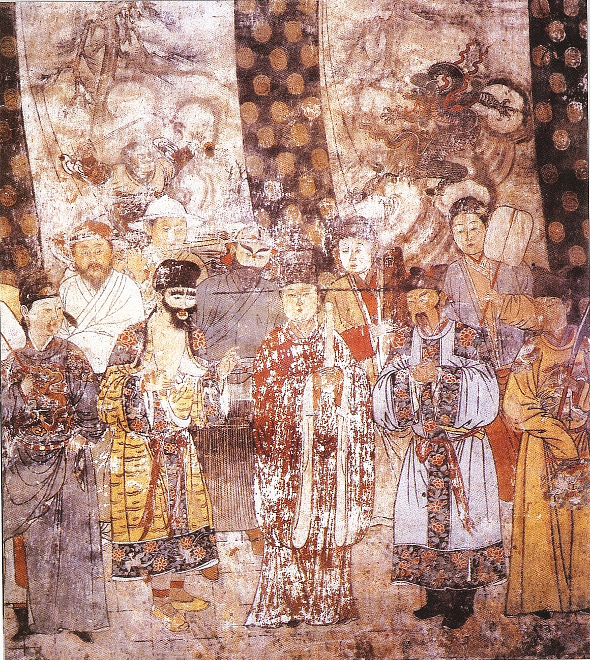 In mid-Imperial China, characters in theatrical performances wore elaborate costumes and stereotyped facial makeup, shown here in a large Yuan Dynasty (1279-1368 CE) mural in a hall (明应王殿) of the Guangsheng Temple (广胜寺) in Hongtong county (洪洞県), Shanxi province. On the top of this mural is a banner that reads Ráodū jiànài Dàxíng sǎnyuè Zhōng Dūxiù zàicǐ zuòchǎng Tàidìng yuánnián sìyuè (堯都見愛/大行散樂忠都秀在此作場/泰定元年四月 "Ráodū liked it. Zhōng Dūxiù, a famous actress of sǎnyuè performed here. The fourth month of year one in era Tàidìng.")